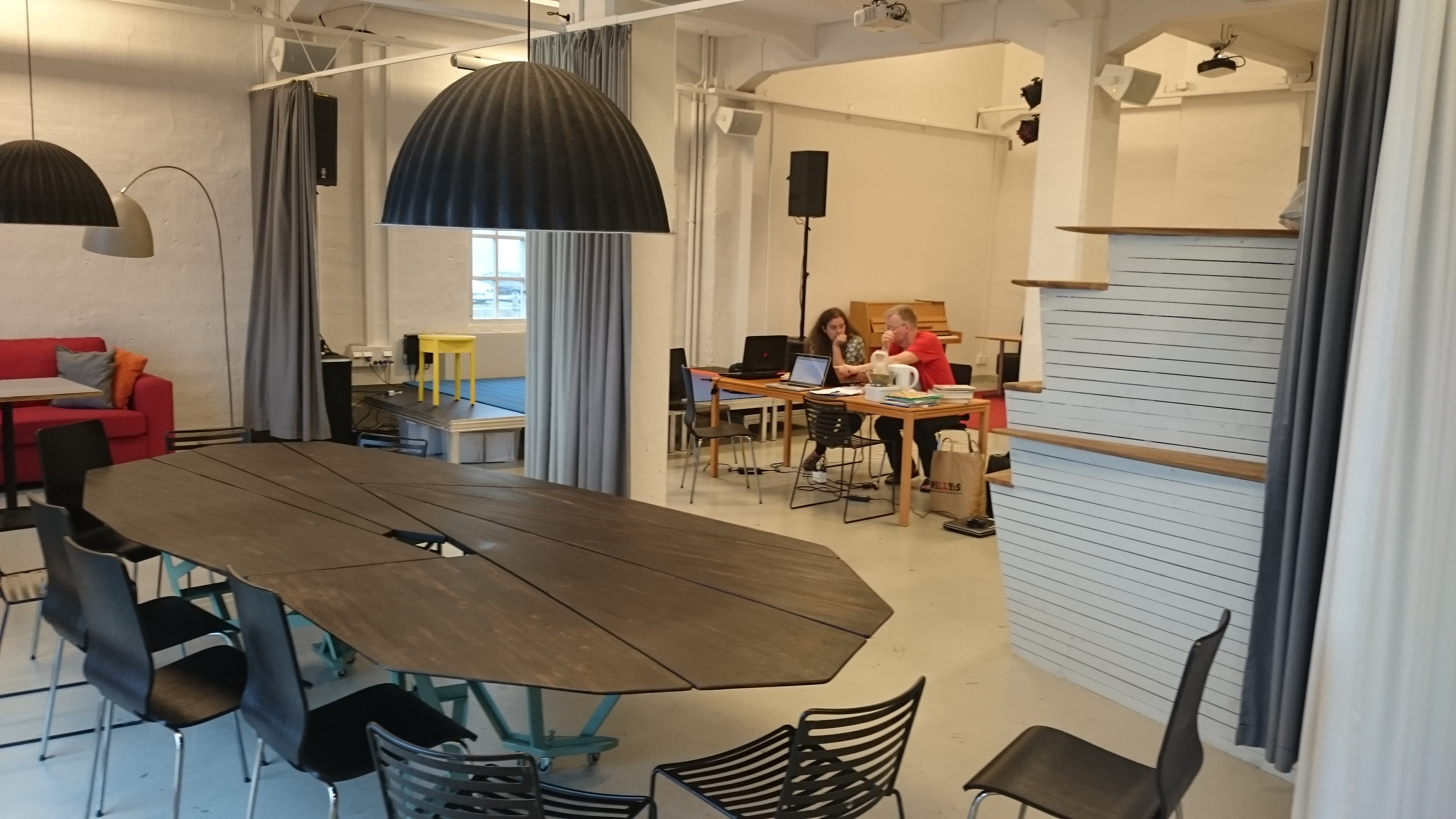 Editathon Kvinnliga huvudpersoner på Wikipedia 2015